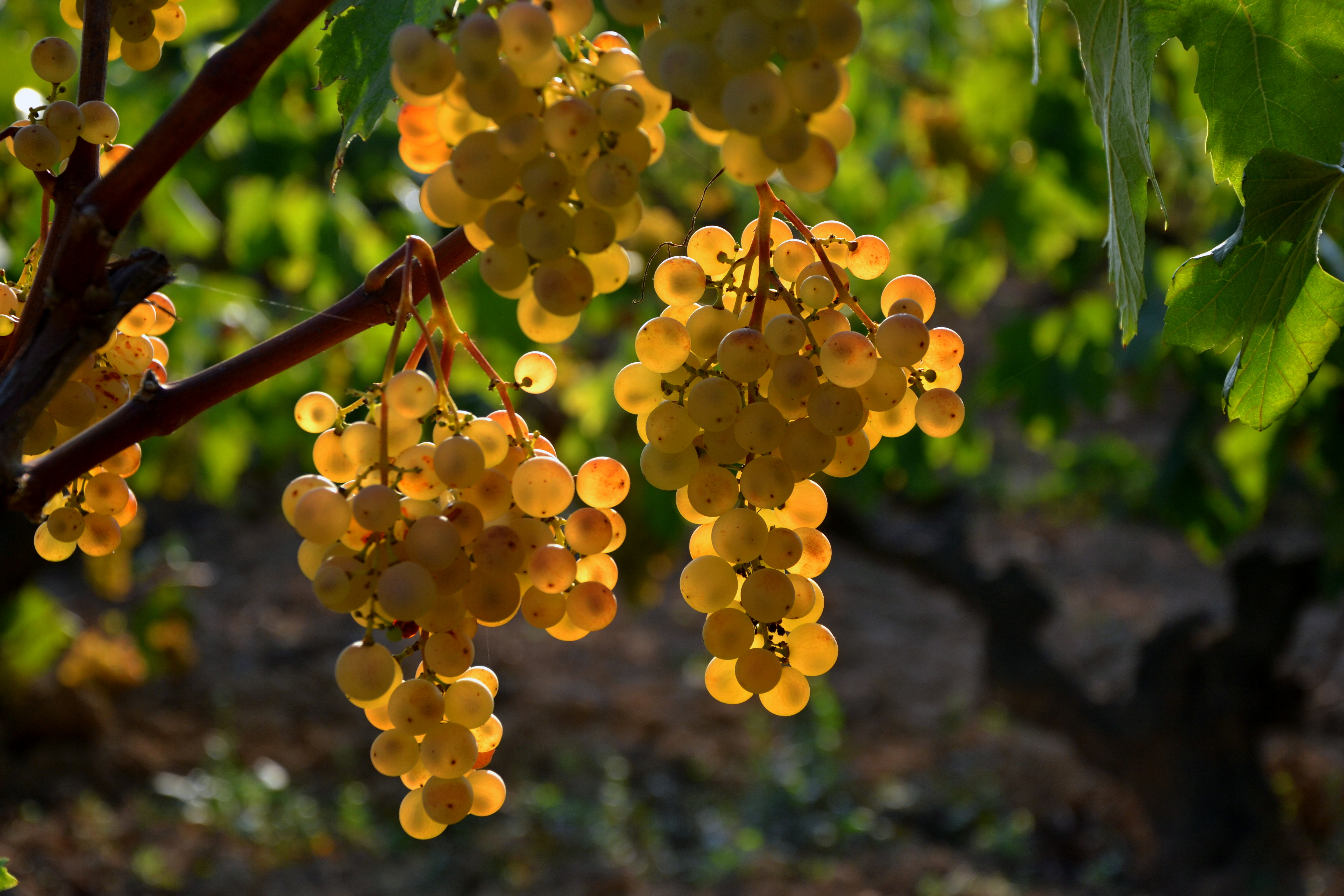 Harvest grapes end of September Catalonia Catalunya Spain Eu grape harvest xarel-lo Penedes Vilafranca del Penedès